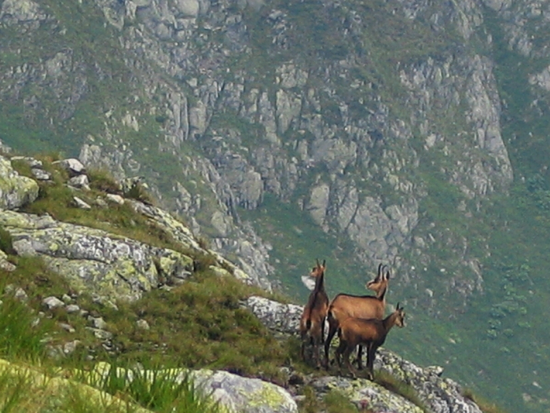 Tatra Mountains Rupicapra rupicapra released in 2005 by author M. Betley